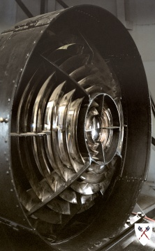 Author: User:Topory